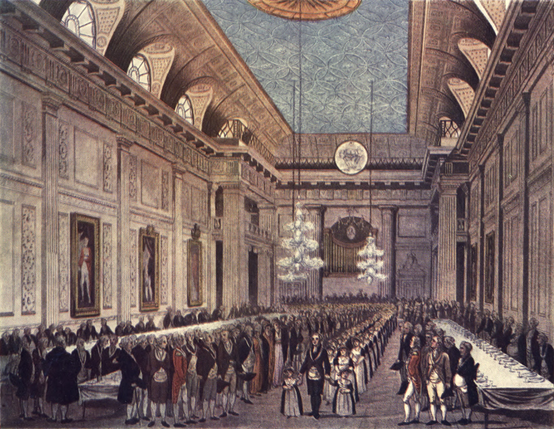 Freemasons' Hall as designed by Thomas Sandby and located behind the Freemasons' Tavern